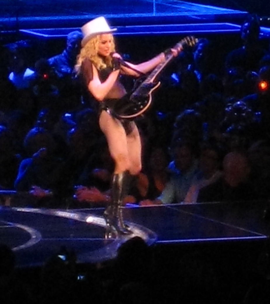 Taken at the Madonna 'Sticky & Sweet' Tour' Concert @ Bell Centre, Montreal, Canada on 23rd October, 2008. The background screen showed videos of Britney Spears. During her US tour (Dogers Stadium - November 6th), she actually joined Madonna on stage to sing along this song. Thanks to the 3 minute record sell out time of 22,000 seats on Ticketmaster and , my seat was about 113 rows away from the main stage, the farthest I have ever been. Request to Madonna - Please install bigger side screens for the unfortunate few. The 58 show tour went all the way from Europe (France, Germany, UK, Spain ...) , Canada (Montreal, Toronto, Vancouver), United States (New York, Los Angles, Las Vegas, Denver...), Mexico to South America (Argentina, Brazil, Chile) and an Australian tour is coming up.